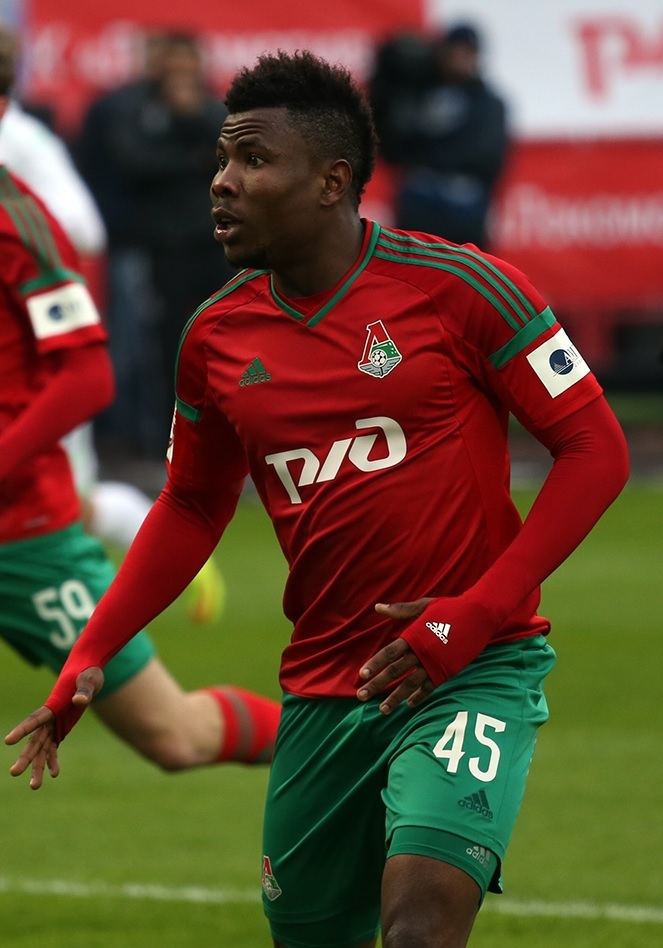 Ezekiel Henry playing for FC Lokomotiv Moscow against